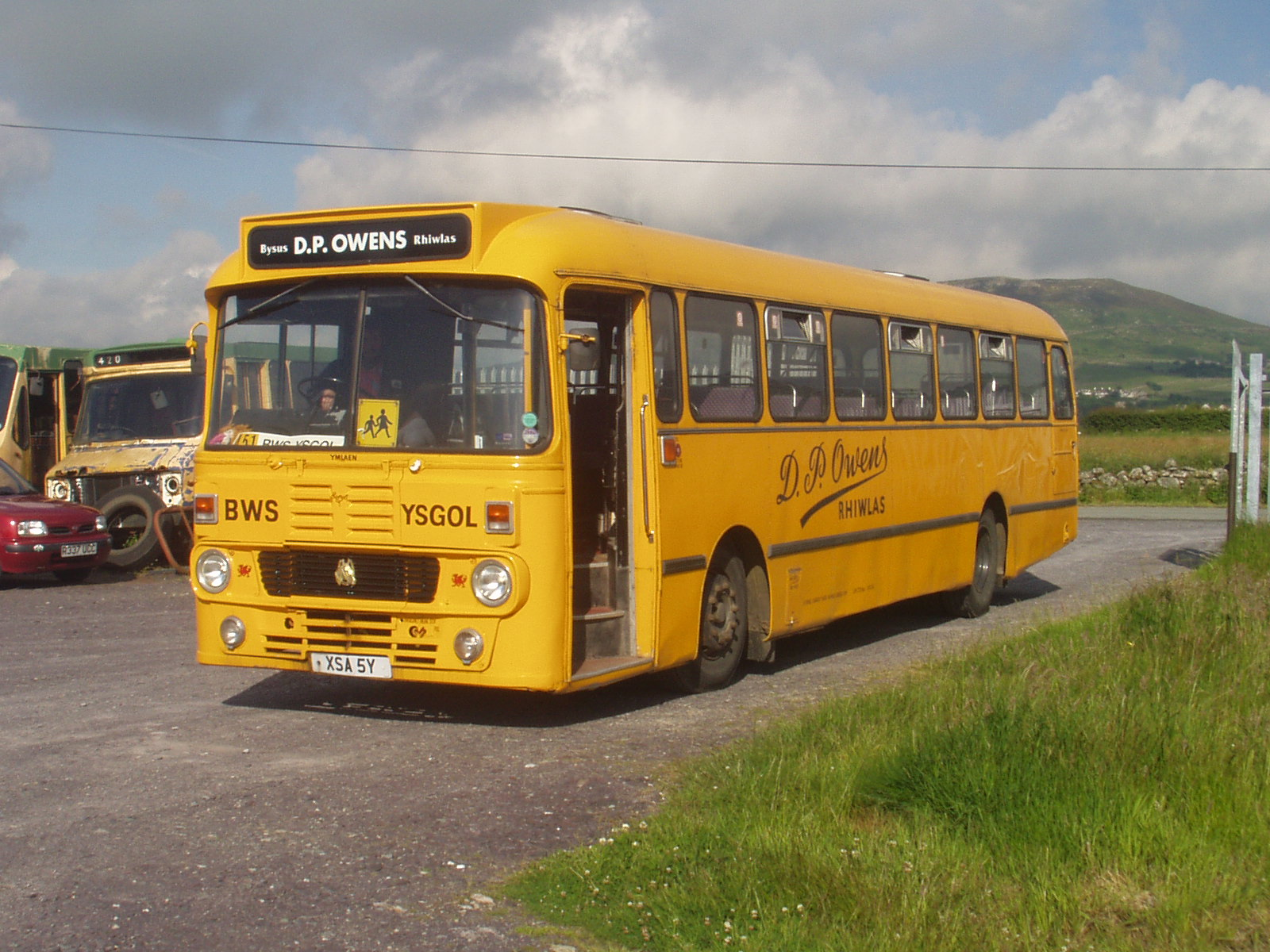 Unique Volvo B57 with Alexander Y Type bodywork, new to Northern Scottish, currently operated by D. P. Owens of Rhiwlas, Gwynedd, north Wales.